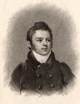 Benjamin Dean Wyatt, stipple engraving by T. Blood, after Samuel Drummond. Date: published 1812. From the collection of the National Portrait Gallery London.